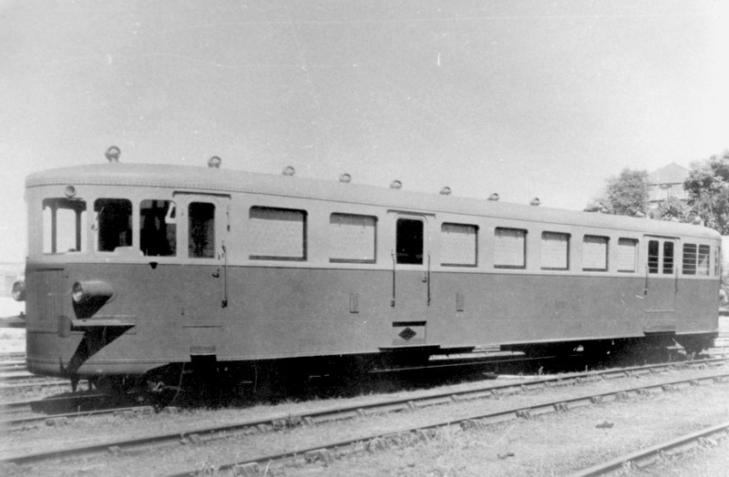 Railcar De Dietrich 210 hp "glou-glou" 73578/1934, PO-Midi ZZPEty 23921, later SNCF (4) ZZD 1201 then XD 1201.